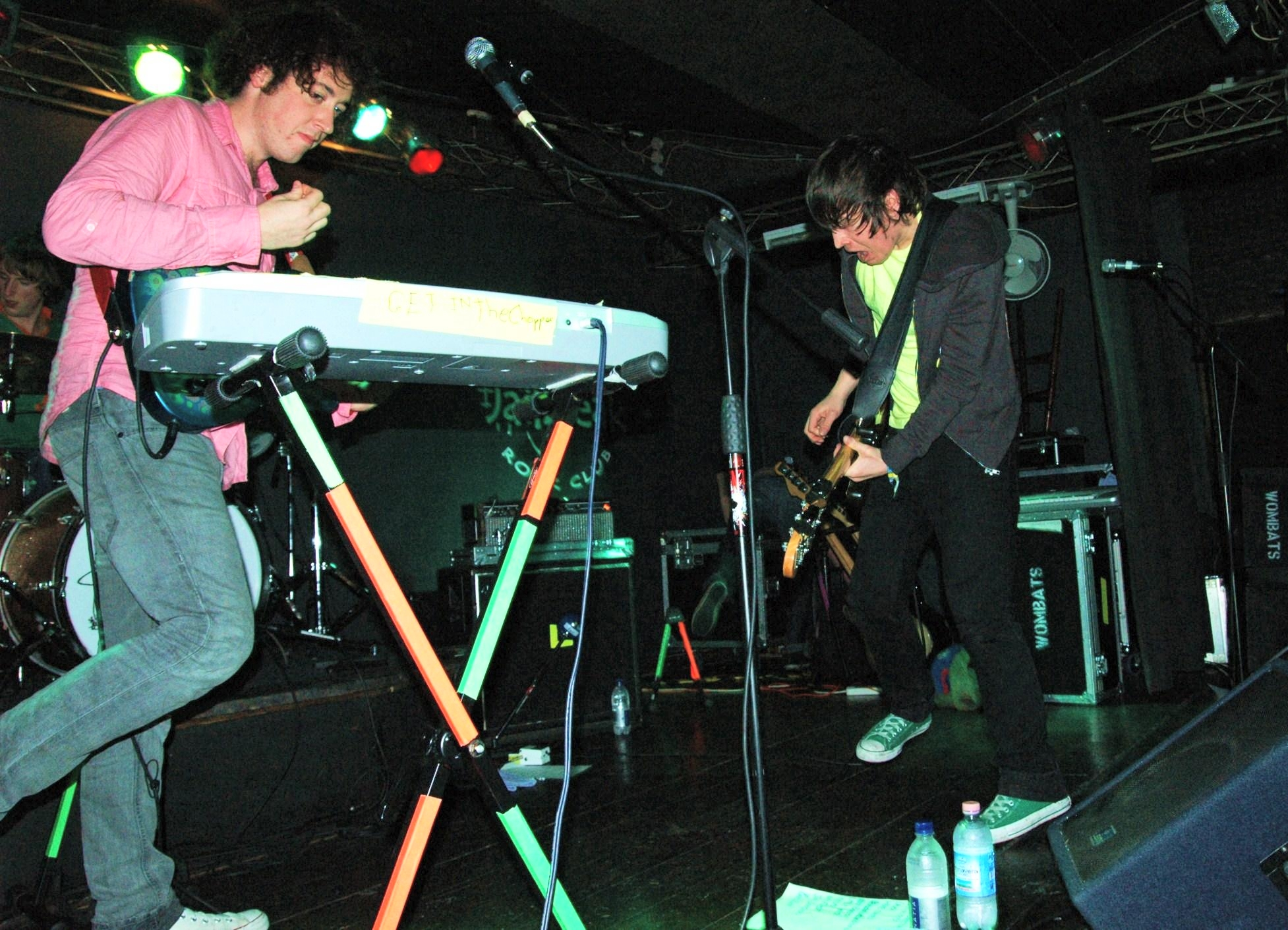 the wombats @ jailbreak 25 nov 2007